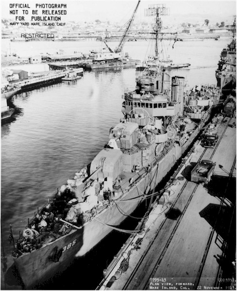 Forward plan view of the USS Fanning (DD-385) at Mare Island on 22 Nov 1943. She was in overhaul at the shipyard from 9 Oct until 23 November 1943. USS Case (DD-370) is aft of Fanning. Accessed: 20 April 2006